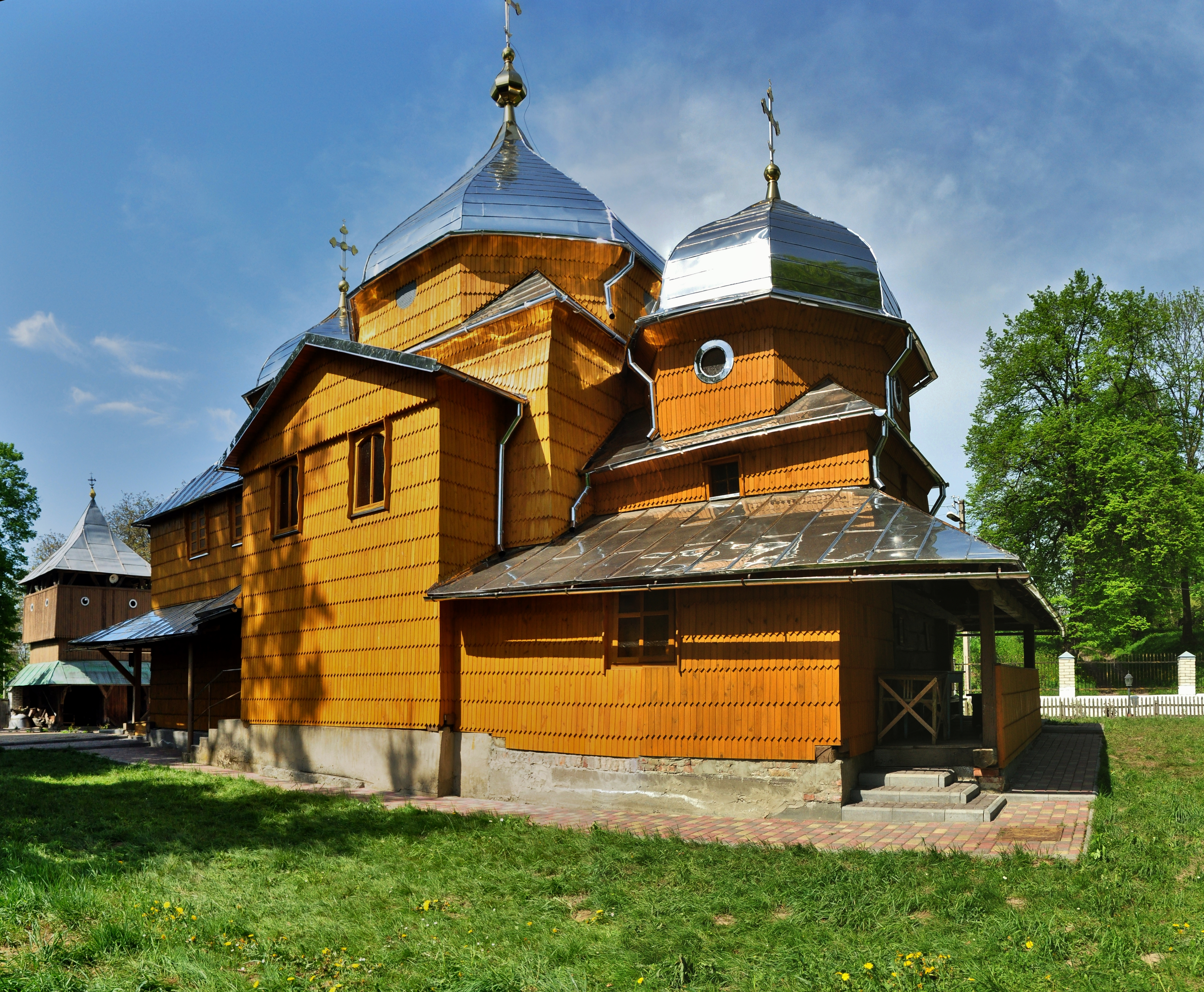 Saint Paraskevia Church in Buniv, Yavoriv Raion, Lviv Oblast